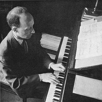 Photograph of Witold Lutosławski, author unknown, taken between 1952 and 1953.